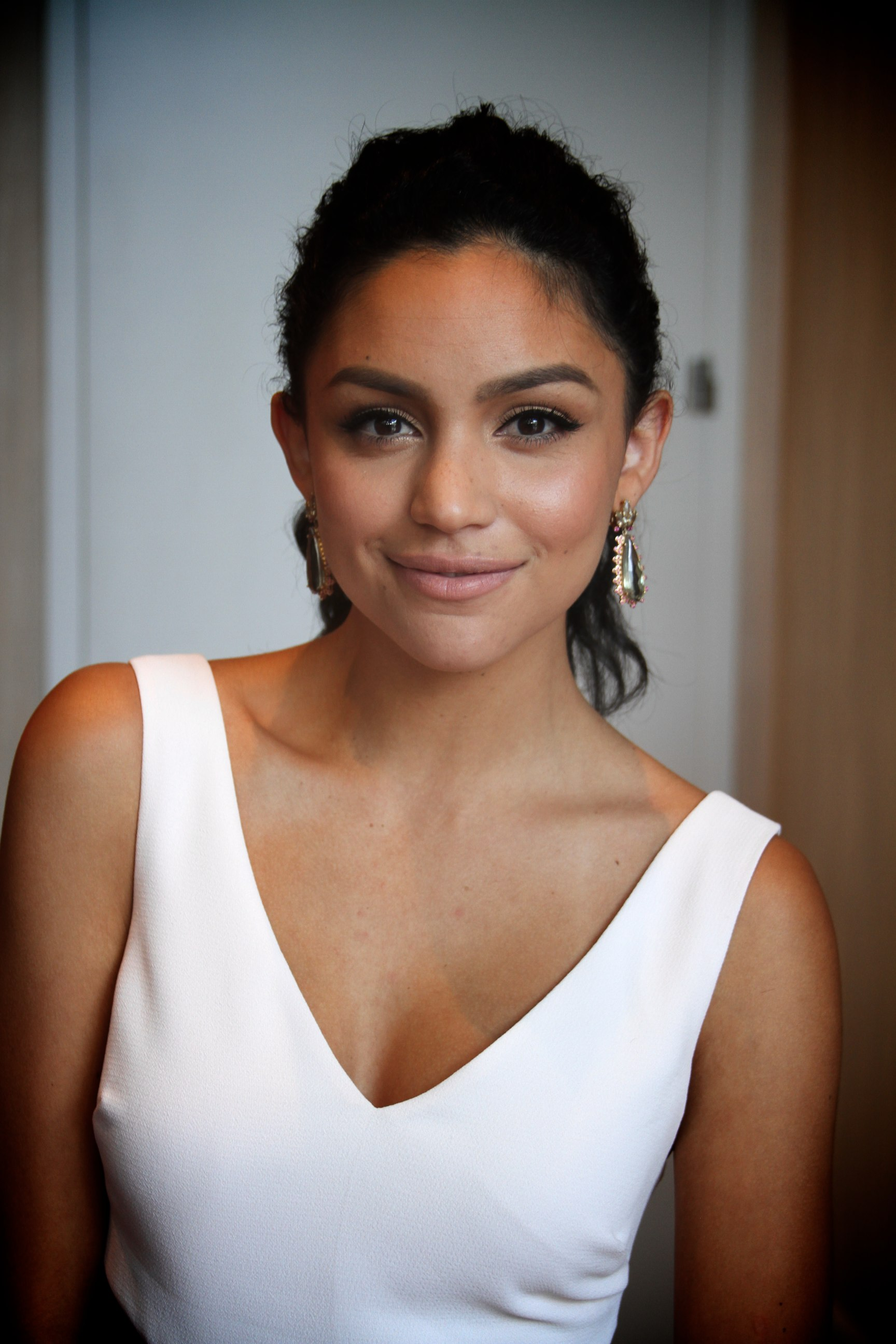 Bianca Santos at the 2014 Imagen Foundation Awards